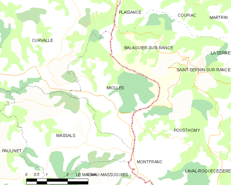 Map of French municipality Miolles